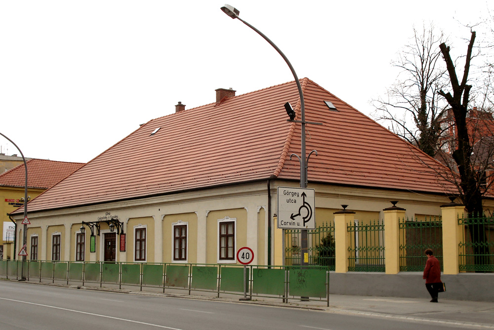 Old Hospital Mindszent, 10 Mindszent Square, Miskolc, Hungary